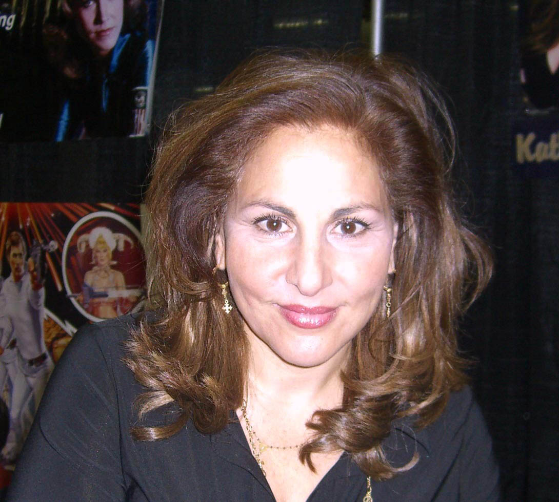 American actress Kathy Najimy at the Big Apple Convention in Manhattan. Photographed by Luigi Novi. This photo may only be used if the photographer is properly credited. (See Licensing information below.)